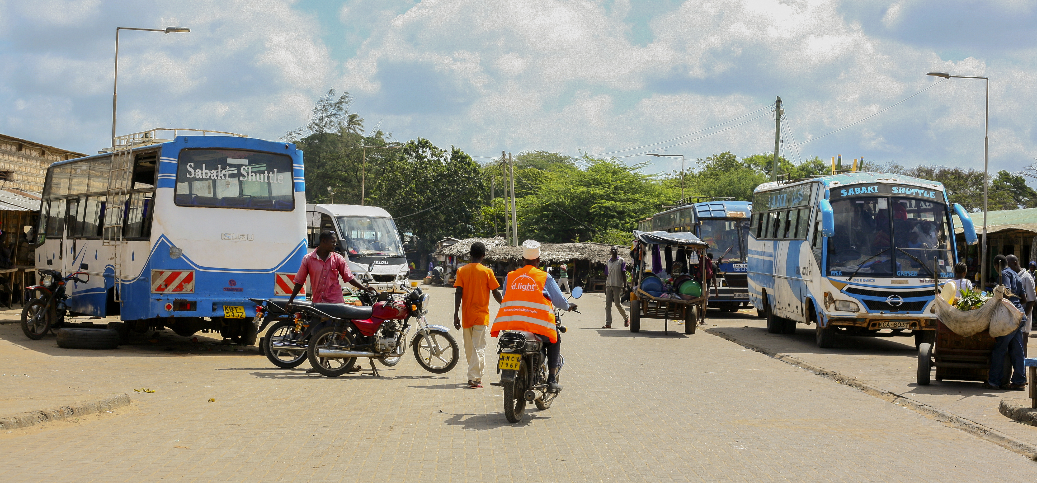 tax park in malindi Kenya This is an image with the theme "Africa on the Move or Transport" from: Kenya